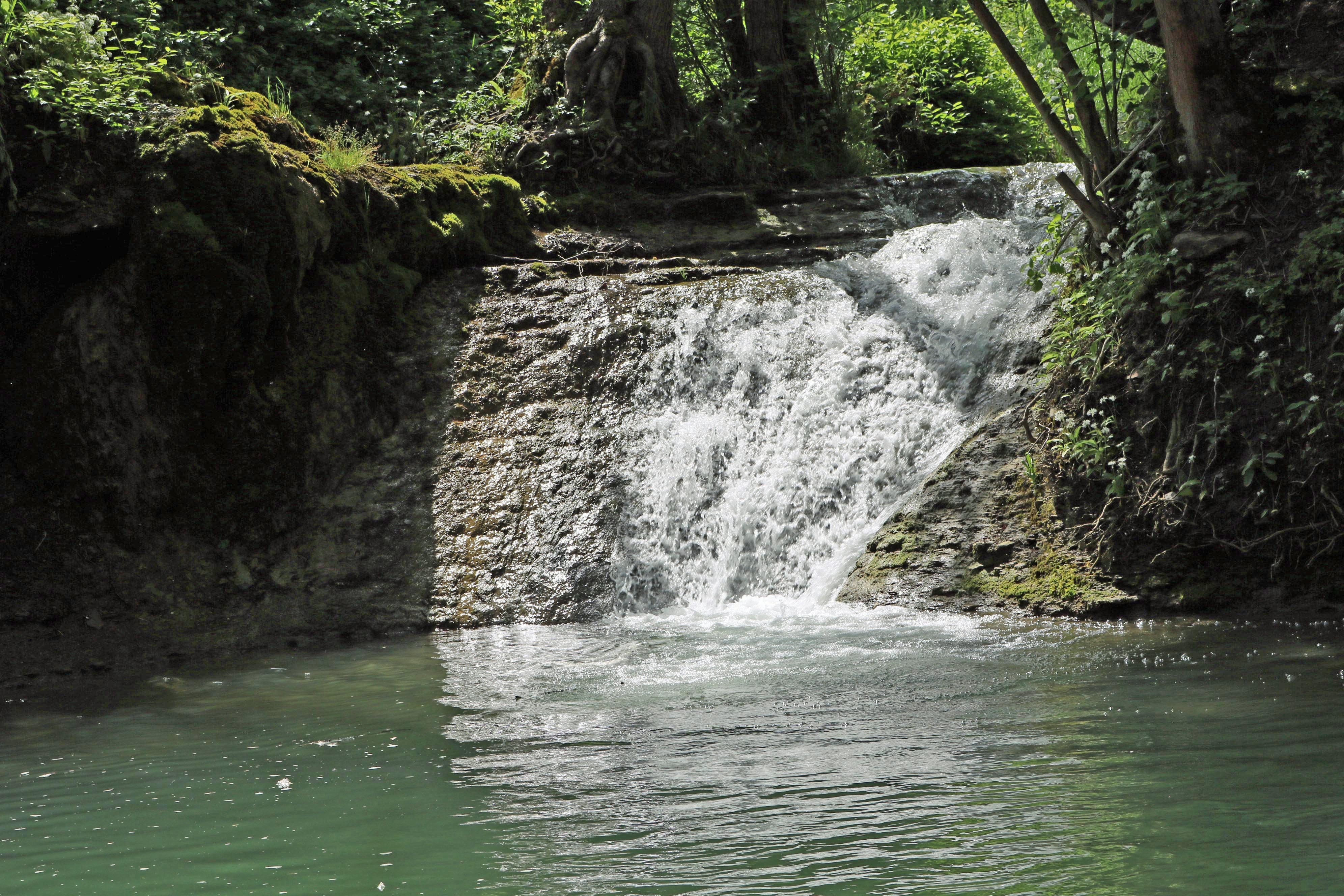 Naturdenkmal Großes Giess in Neuffen